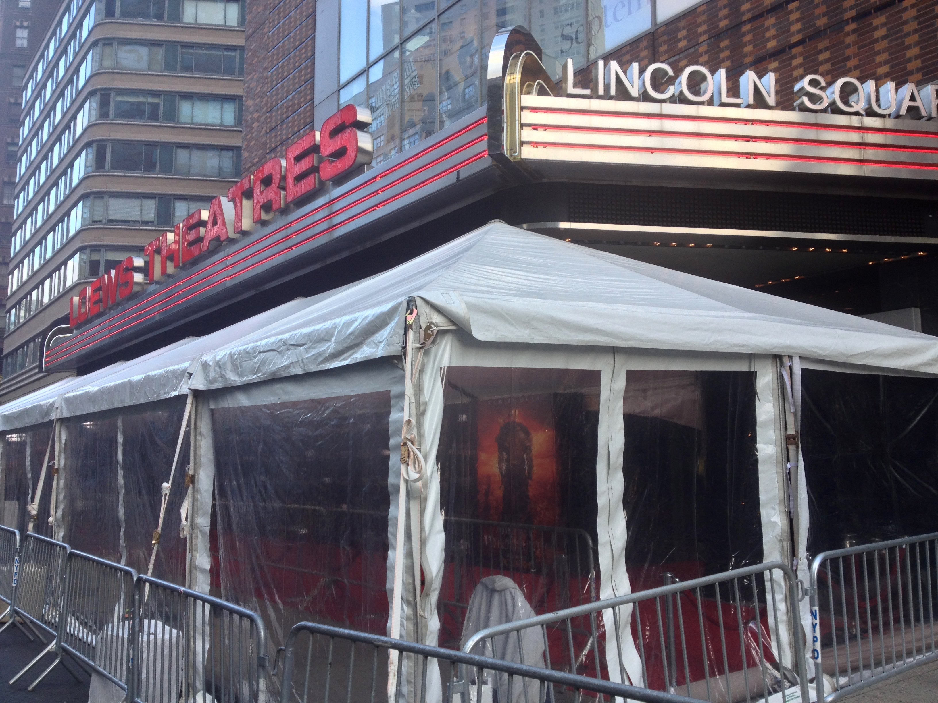 The Loews Lincoln Square movie theater in Lincoln Square, Manhattan on October 13, 2015, shortly before the premiere of the film The Last Witch Hunter. This photo was created by Luigi Novi. It is not in the public domain, and use of this file outside of the licensing terms is a copyright violation.